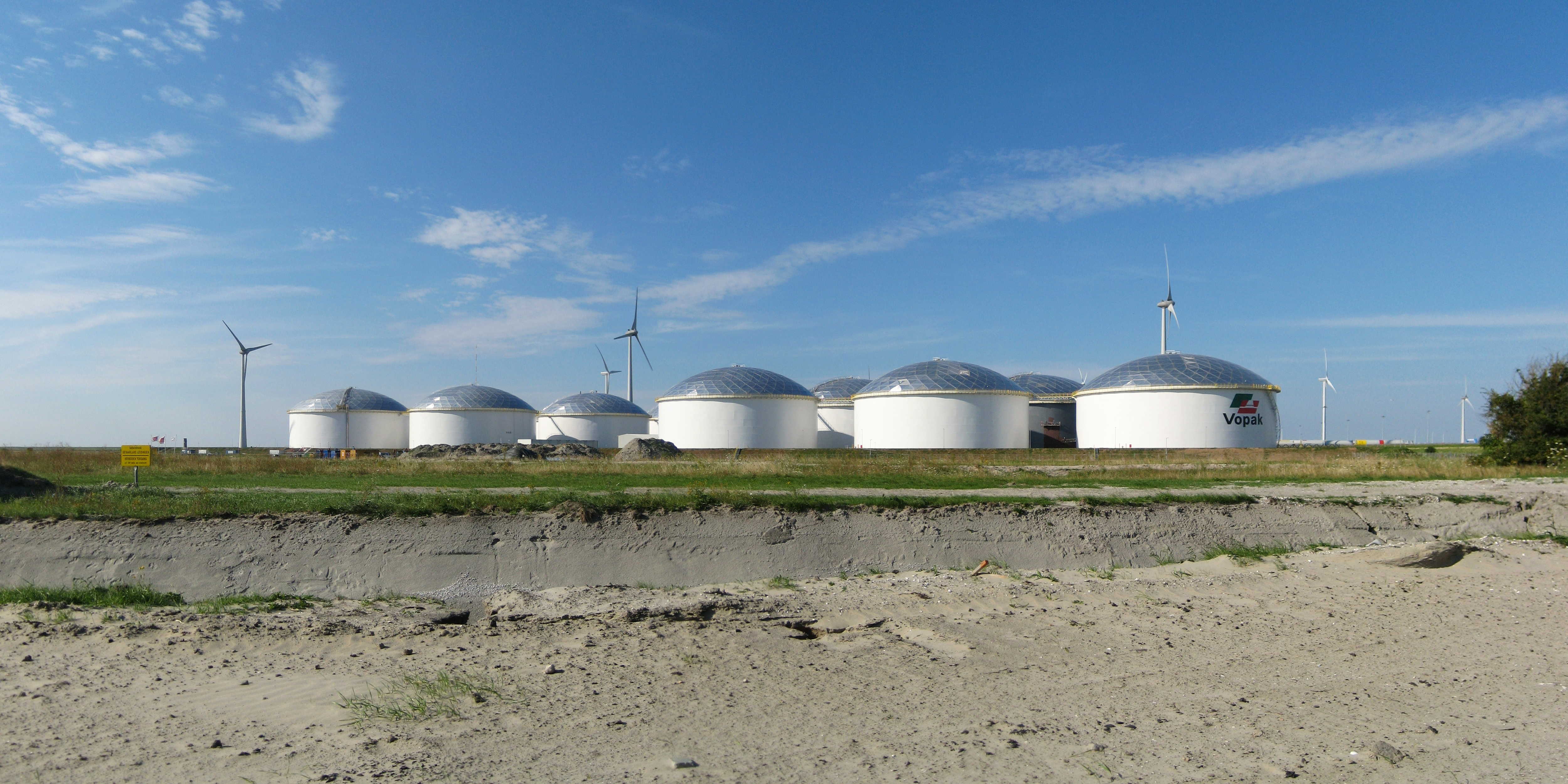 The Vopak Terminal Eemshaven, an oil depot in the Eemshaven, a port in the Dutch province of Groningen.